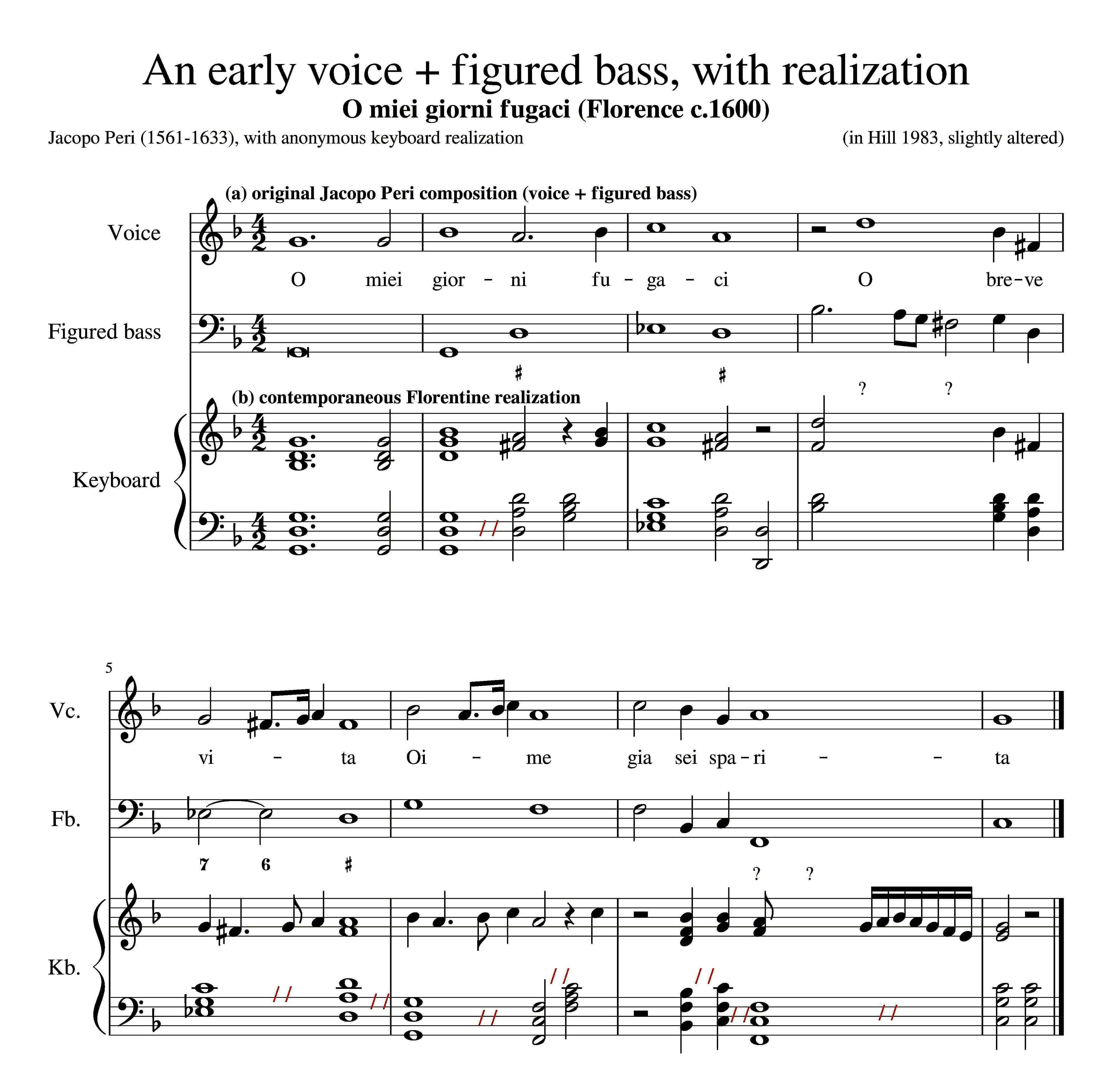 O mIei giorni fugaci: vocal part with figured bass by Jacopo Peri, and a contemporaneous keyboard realization c.1600